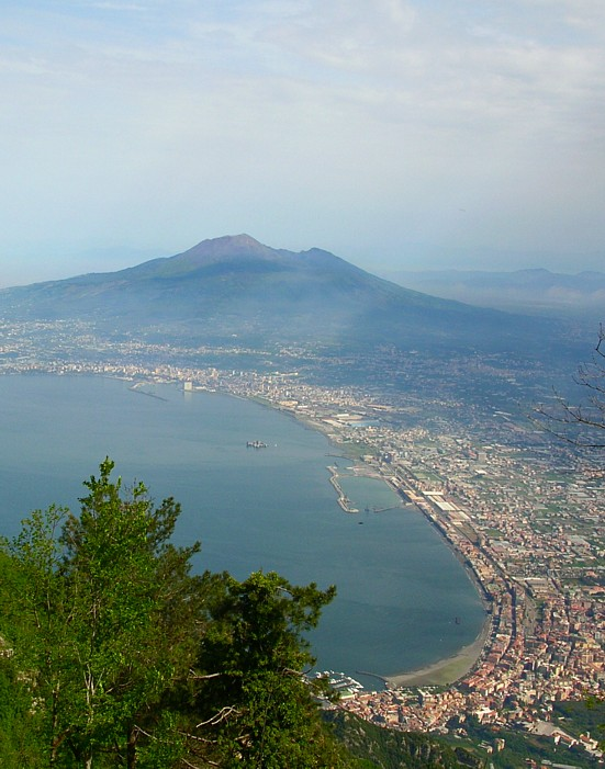 Castellammare di Stabia, the Gulf of Napels and Vesuvio